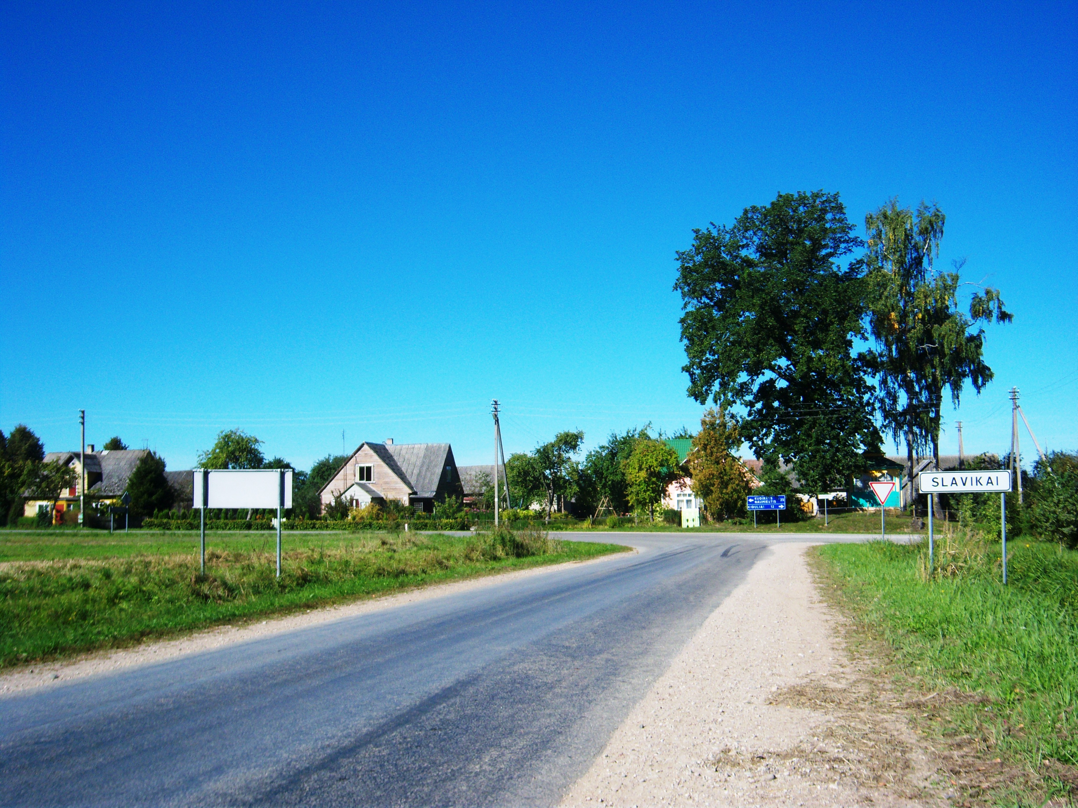 Slavikai, Šakiai District, Lithuania